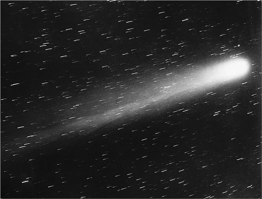 An image of Halley's Comet, taken on May 29, 1910.